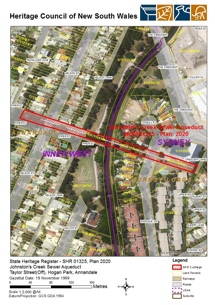 Johnston's Creek Sewer Aqueduct: SHR Plan 2020